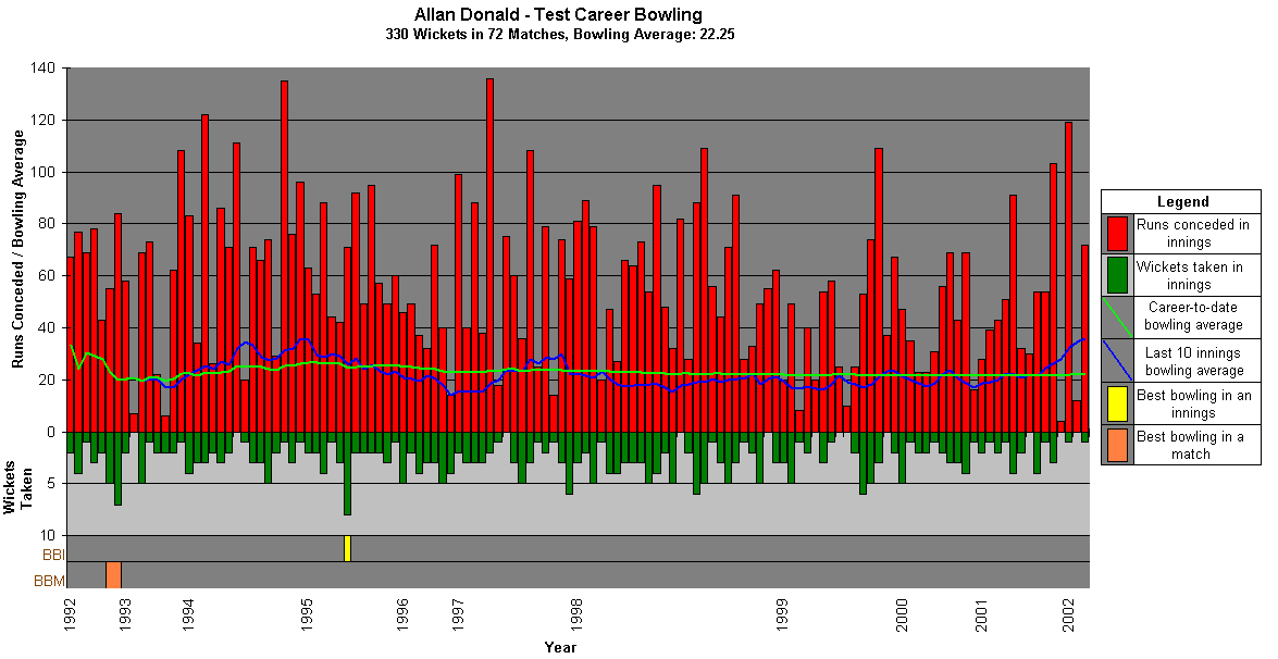 A graph that shows Allan Donald's test career bowling statistics and how they have varied over time. It was created by Masai 162. This image was created using Microsoft Excel and MS Paint. Source Data obtained from